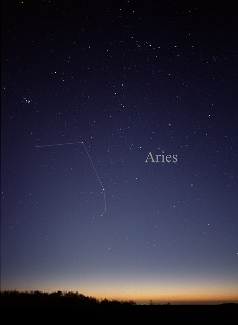 Photography of the constellation Aries, the ram